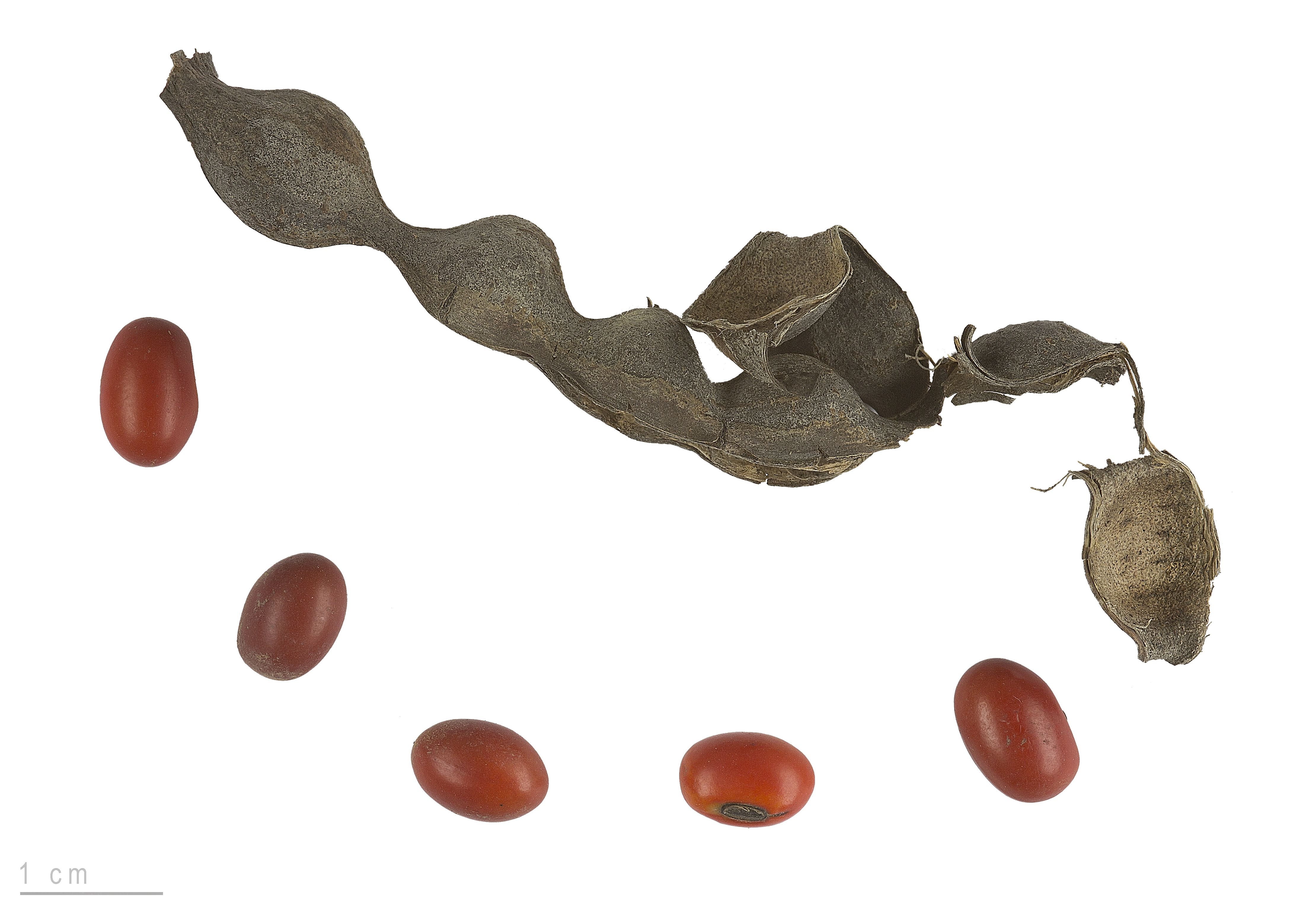 Common Coral Tree, fruits and seeds